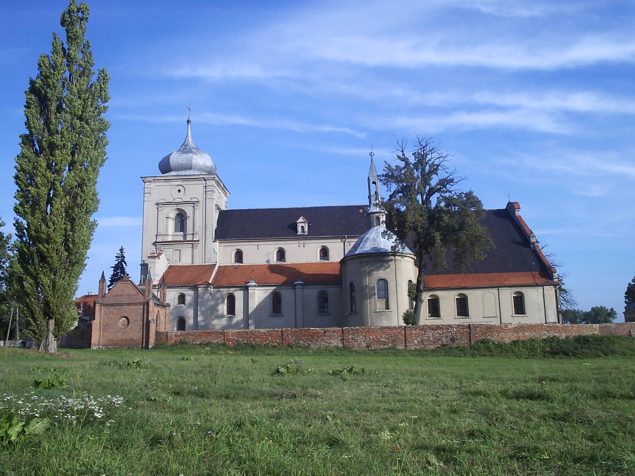 Church in Borek Wielkopolski, Poland